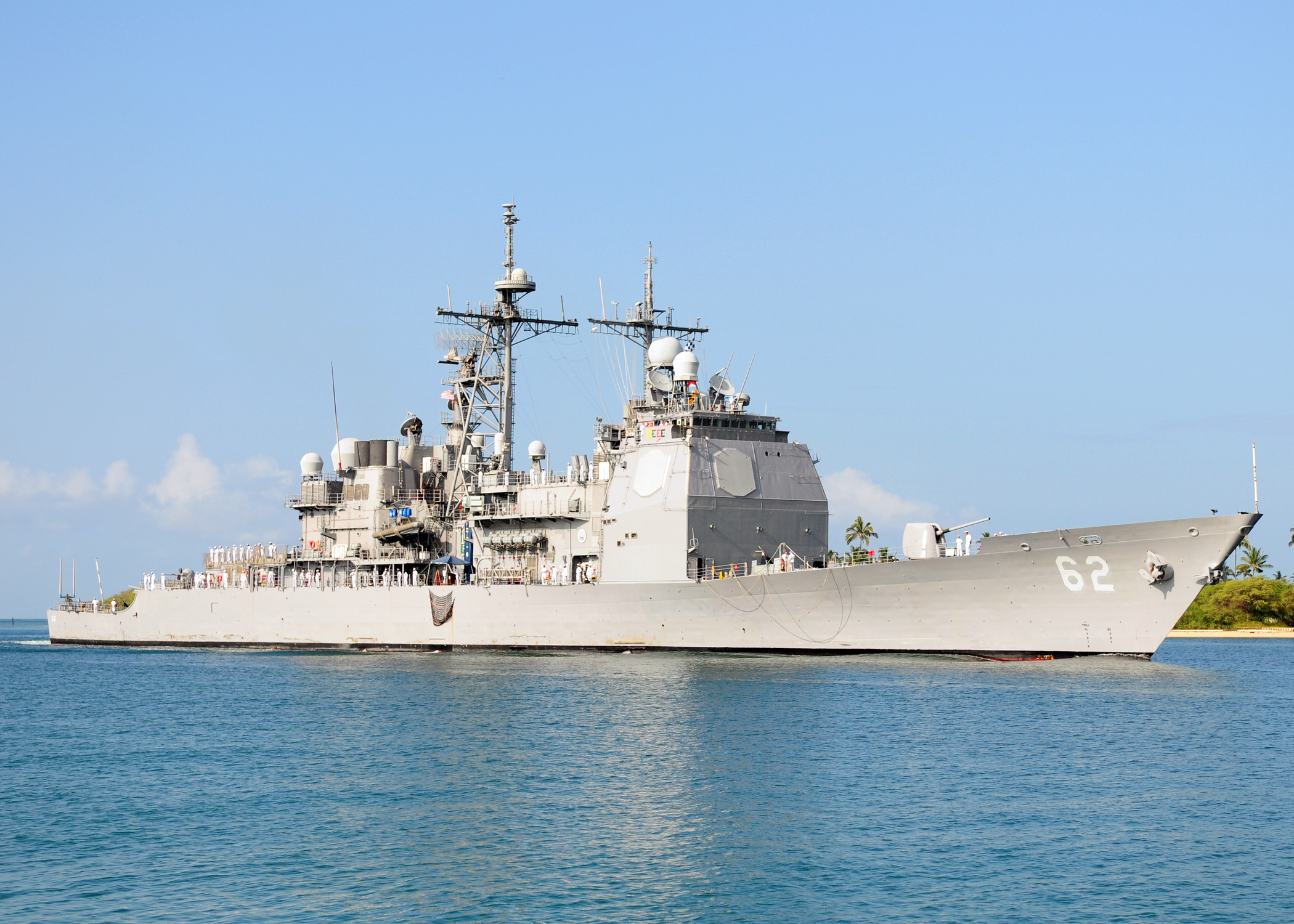 PEARL HARBOR (June 28, 2010) The Ticonderoga-class guided missile cruiser USS Chancellorsville (CG 62) arrives at Joint Base Pearl Harbor-Hickam to participate Rim of the Pacific (RIMPAC) 2010 exercises. RIMPAC is a biennial, multinational exercise designed to strengthen regional partnerships and improve multinational interoperability. (U.S. Navy photo by Mass Communication Specialist 2nd Class Jon Dasbach/Released)